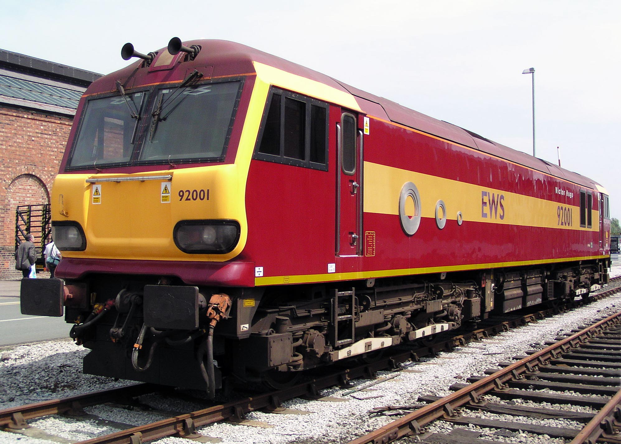 BR Class 92, no. 92001 Victor Hugo at Crewe Works on 1st June 2003. This is one of only two Class 92 locomotives to carry EWS-livery.